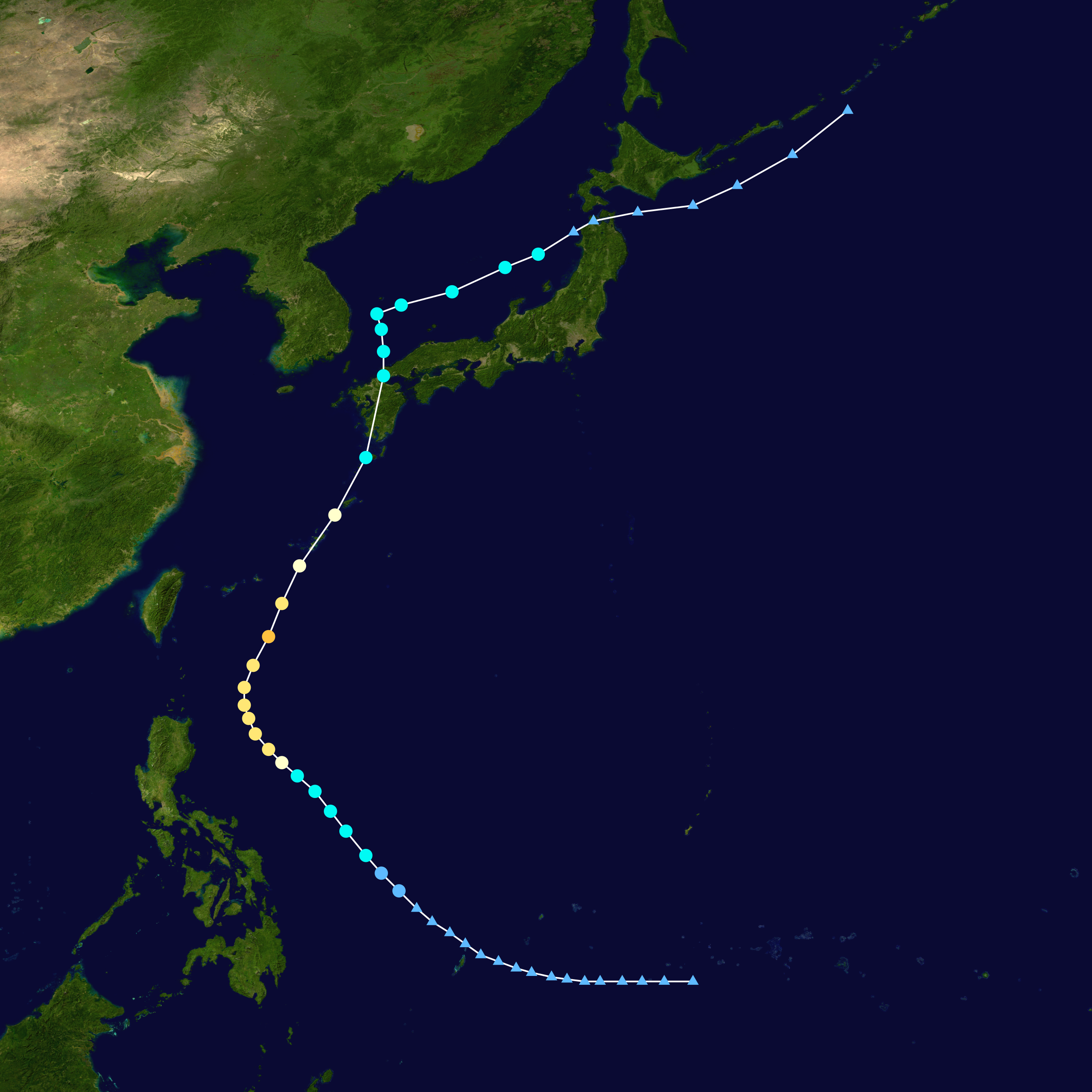 Track map of Typhoon Della of the 1949 Pacific typhoon season. The points show the location of the storm at 6-hour intervals. The colour represents the storm's maximum sustained wind speeds as classified in the Saffir–Simpson scale (see below), and the shape of the data points represent the nature of the storm, according to the legend below. Saffir–Simpson scale Tropical depression≤38 mph≤62 km/h Category 3111–129 mph178–208 km/h Tropical storm39–73 mph63–118 km/h Category 4130–156 mph209–251 km/h Category 174–95 mph119–153 km/h Category 5≥157 mph≥252 km/h Category 296–110 mph154–177 km/h Unknown Storm typeTropical cycloneSubtropical cycloneExtratropical cyclone / Remnant low / Tropical disturbance